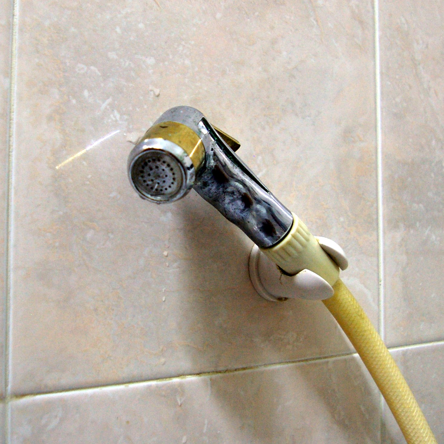 Bidet shower, Health Faucet, Toilet Spray, Bum Gun